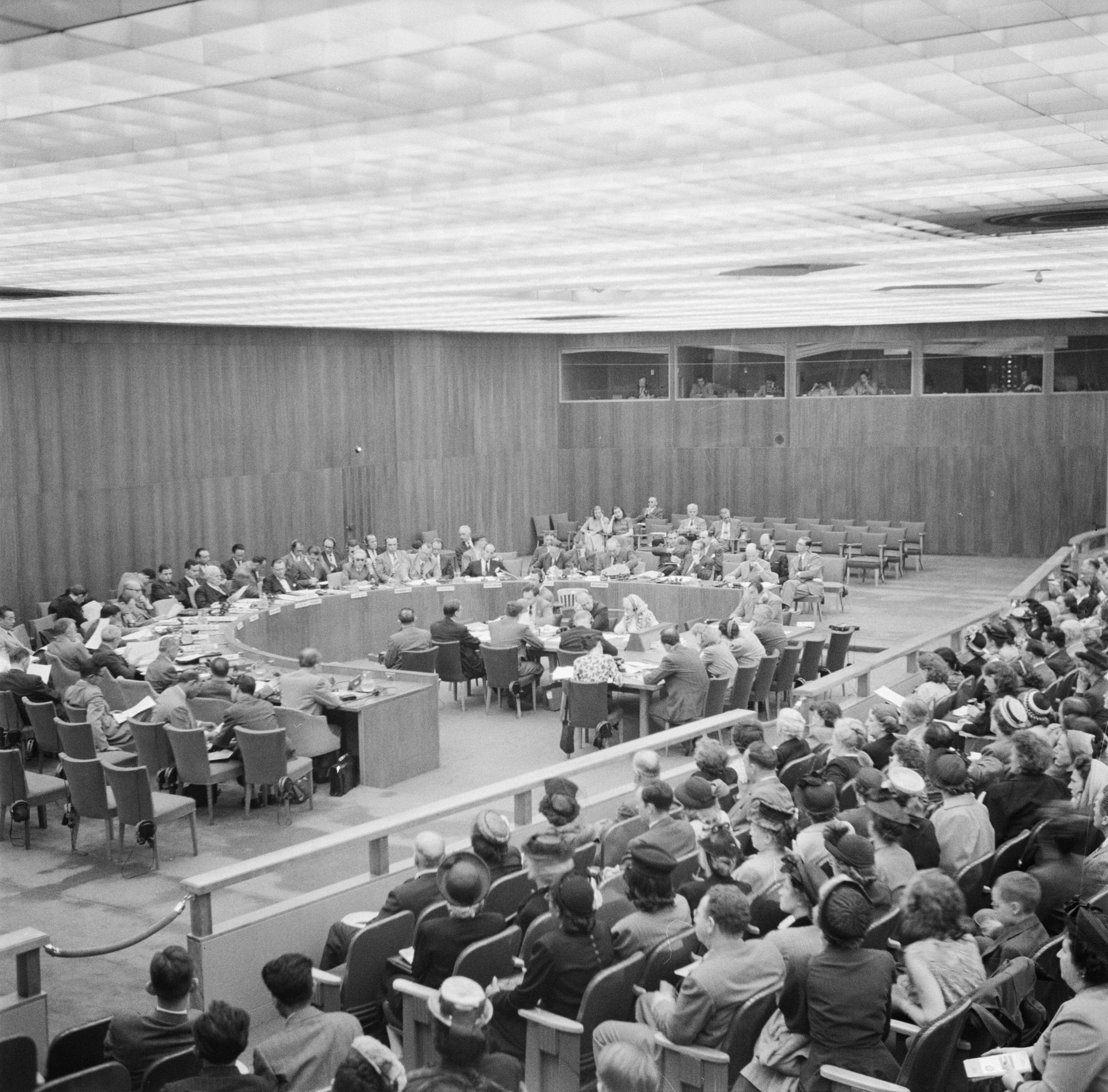 Headquarters of the United Nations in Lake Success Description: Meeting room of the United Nations with at the back of the main table and at the front the public gallery Annotation: The headquarters of the United Nations was located in Lake Success (NY) from 1946-1951. At the moment Van de Poll took this photo, in the then Batavia the Commission of Good Services established by the United Nations came together; this commission was established at the end of August 1947 and was the prelude to the Dutch-Indonesian negotiations that would lead to the independence of Indonesia in 1949